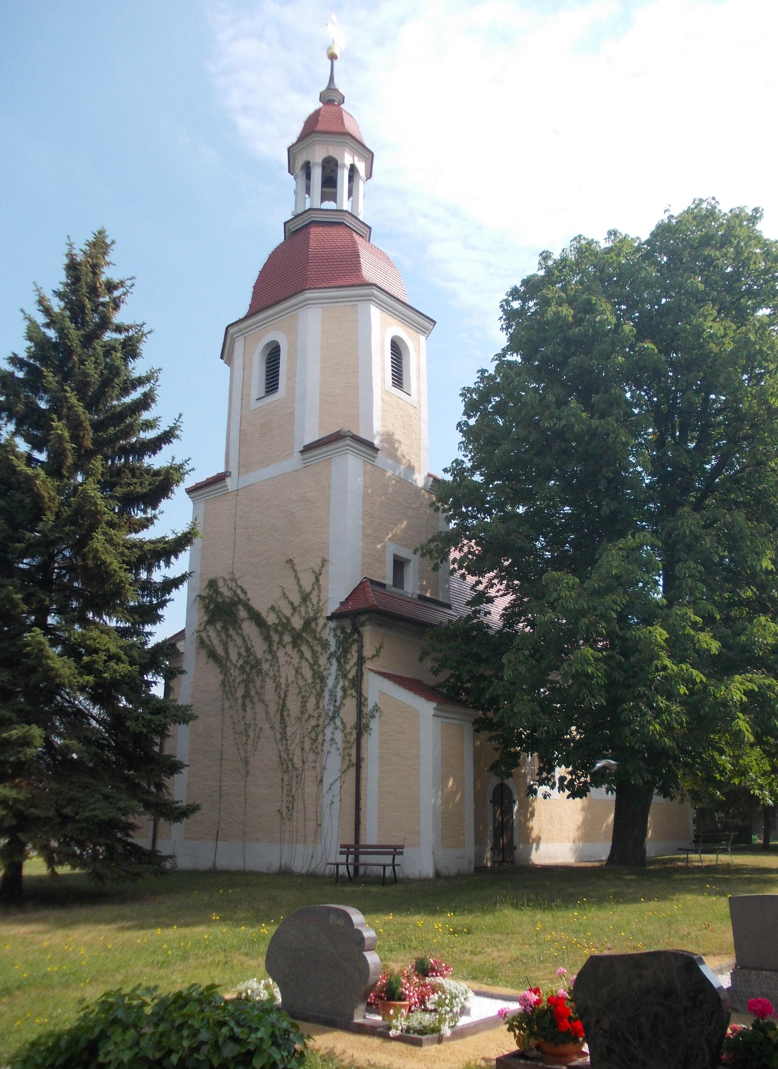 Schöna church (Mockrehna, Nordsachsen district, Saxony)